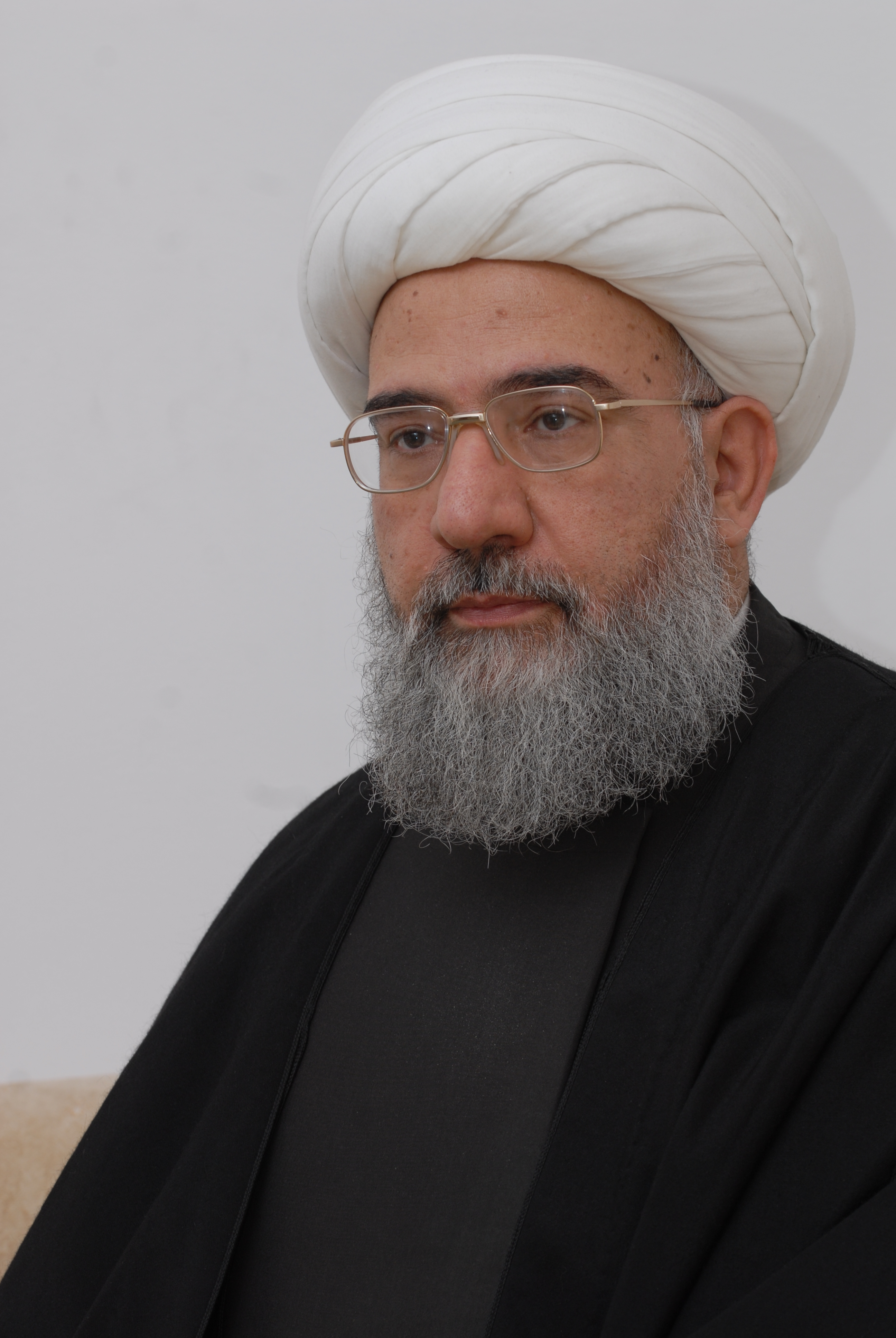 Iraqi Shia cleric Fadel al-Maliki